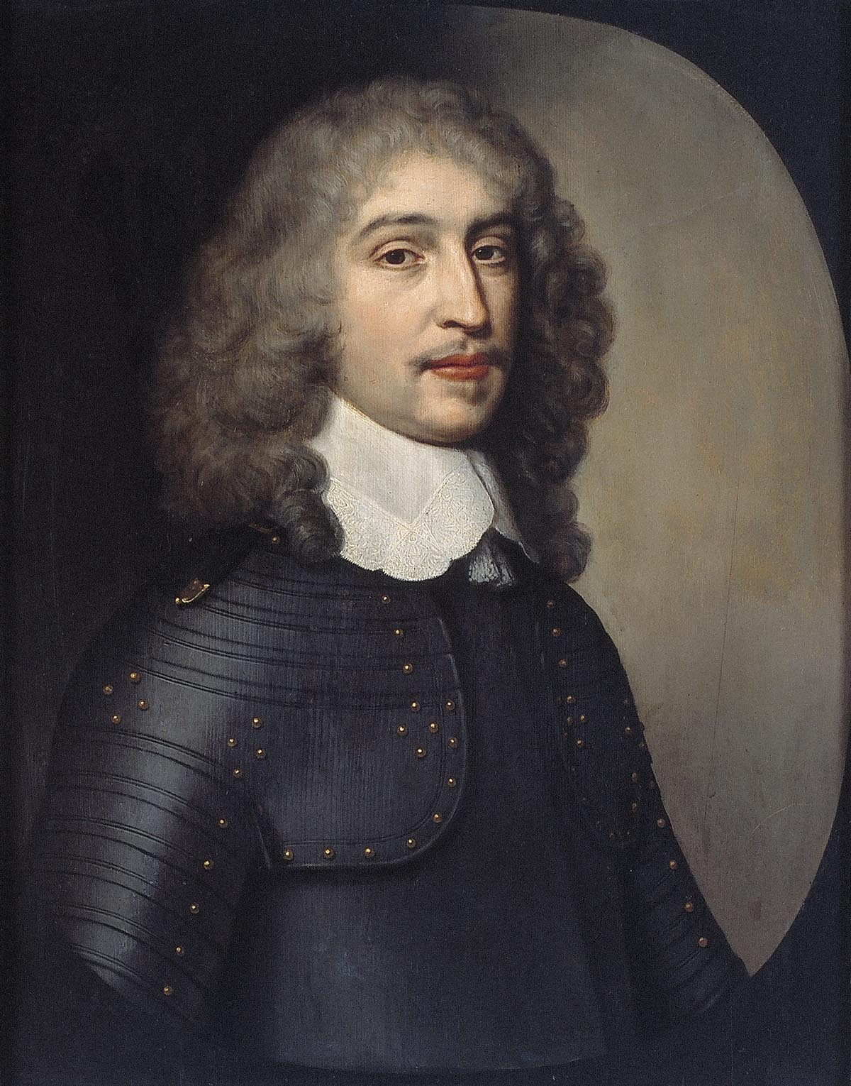 Lodewijk van Nassau-Beverweerd (1602-1665)